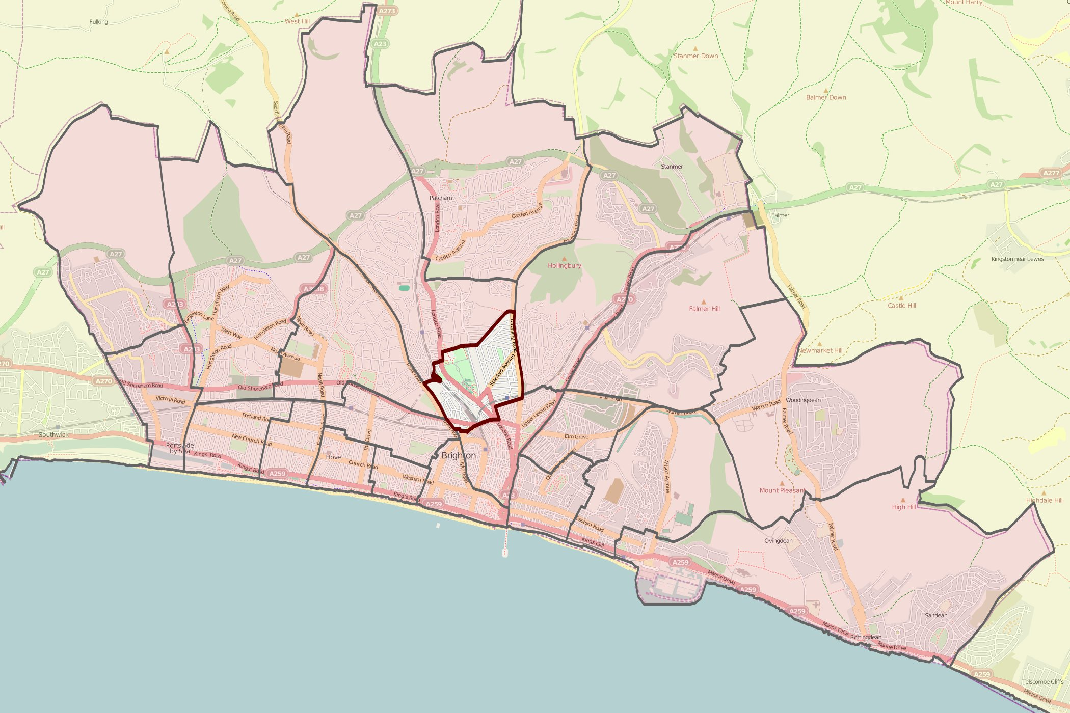 Map of Brighton and Hove wards with one ward highlighted